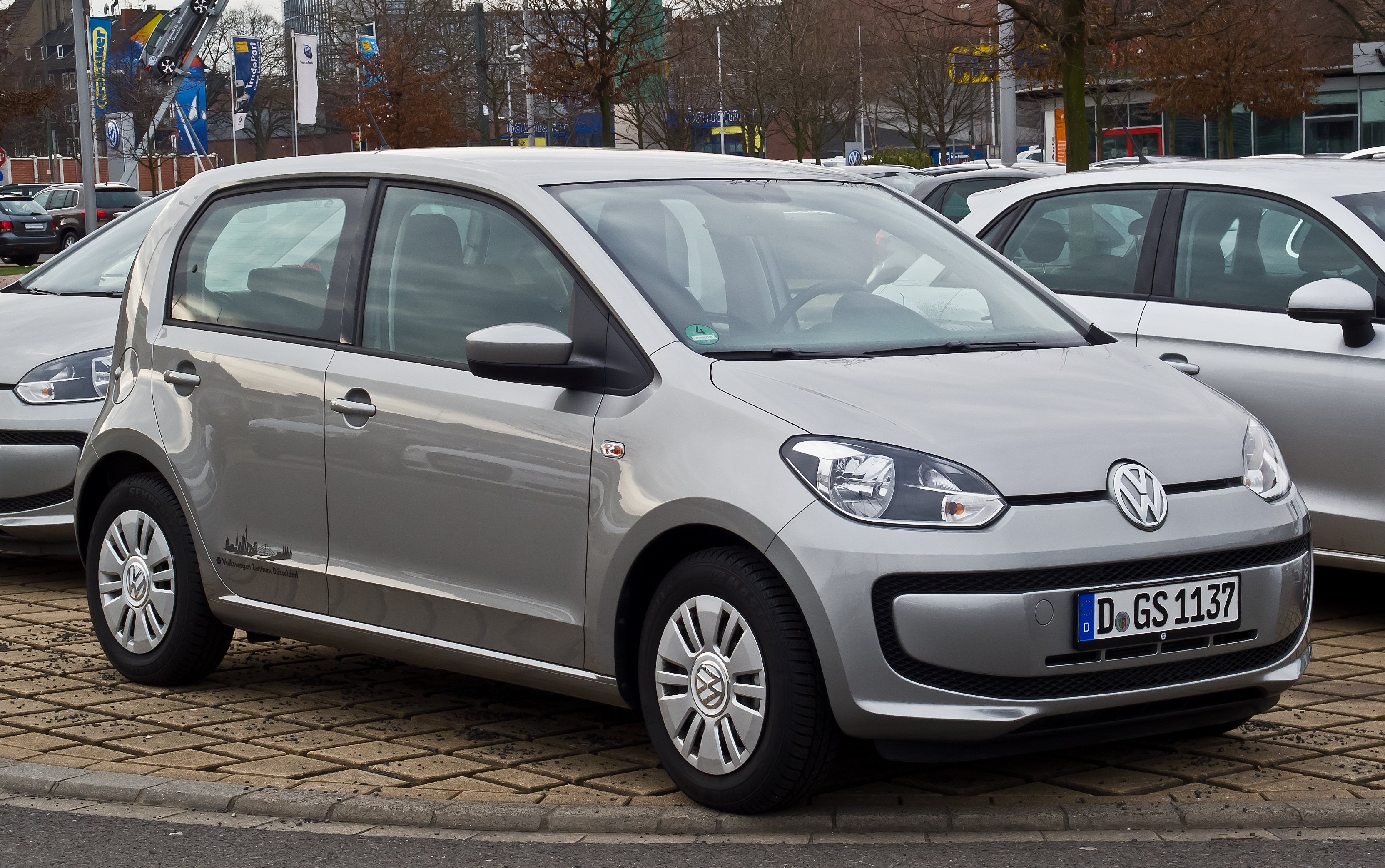 VW move up! 1.0 BlueMotion Technology